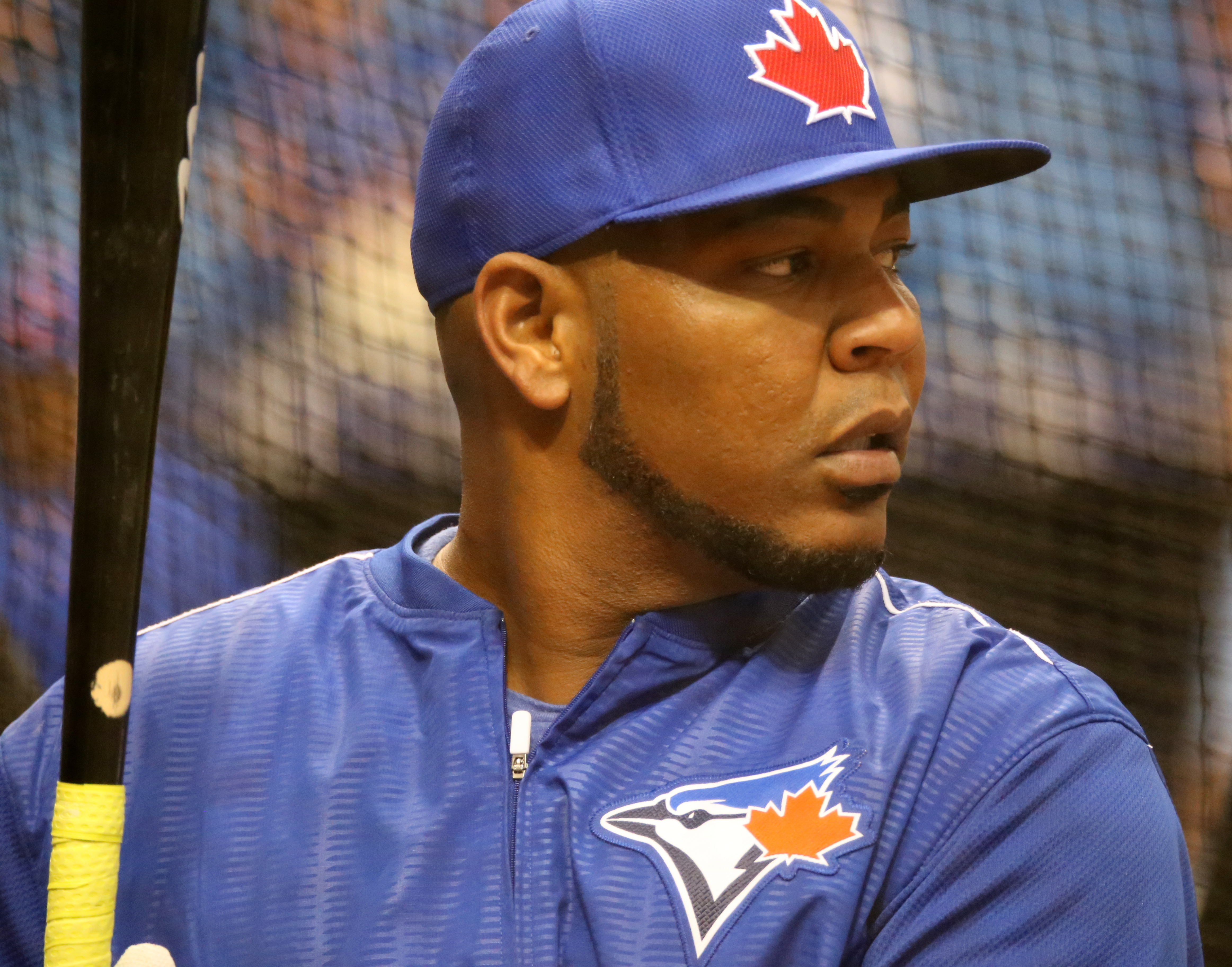 Edwin Encarnación during batting practice on 2016 Opening Day